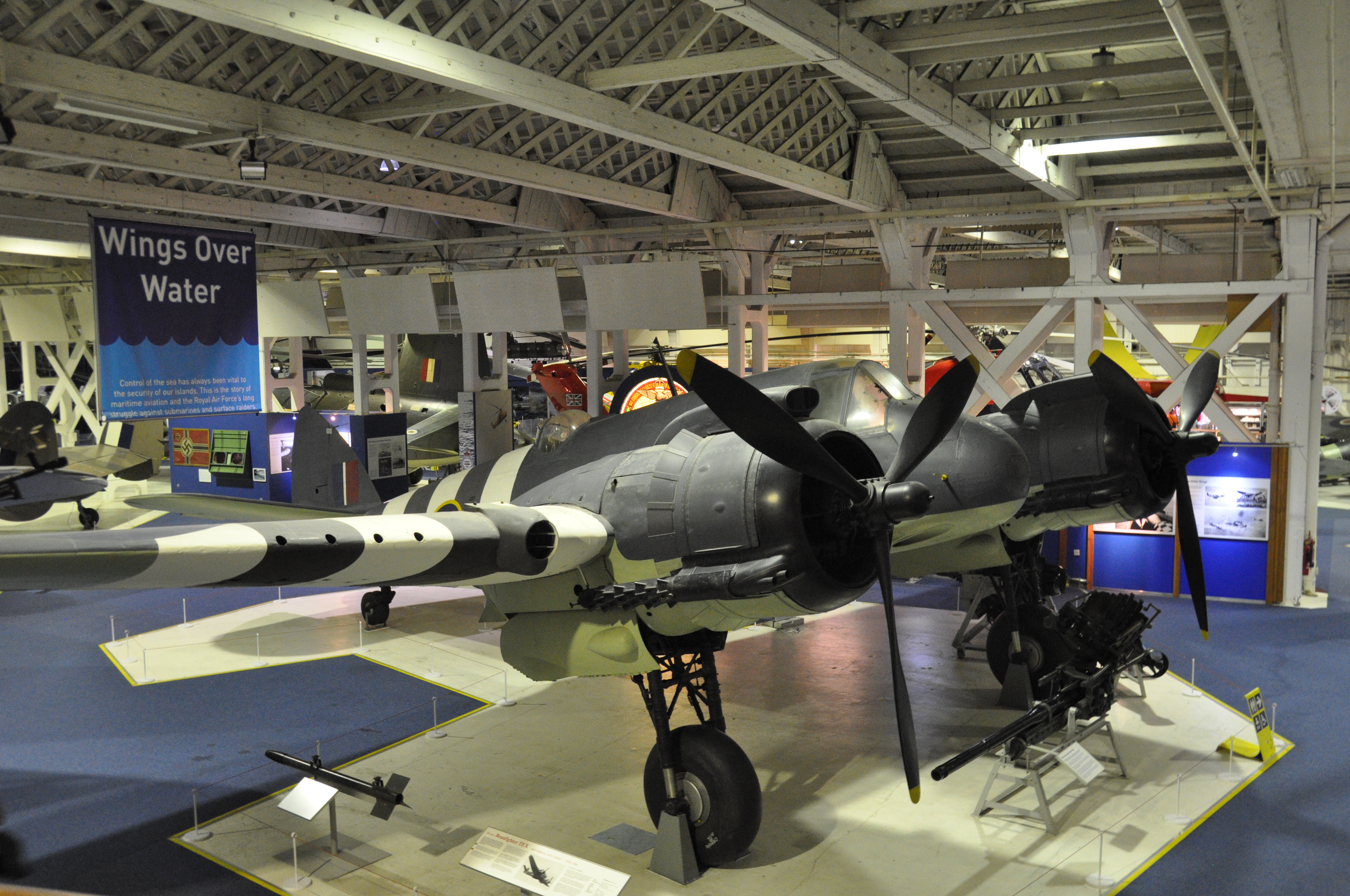 Pictures from RAF Museum, Hendon Bristol Beaufighter